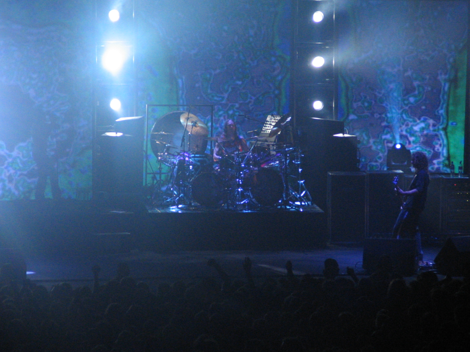 Poland, Katowice, Spodek, Tool (band) concert on 24th of June 2006, (from left) shadow of Keenan, Carey, Chancellor